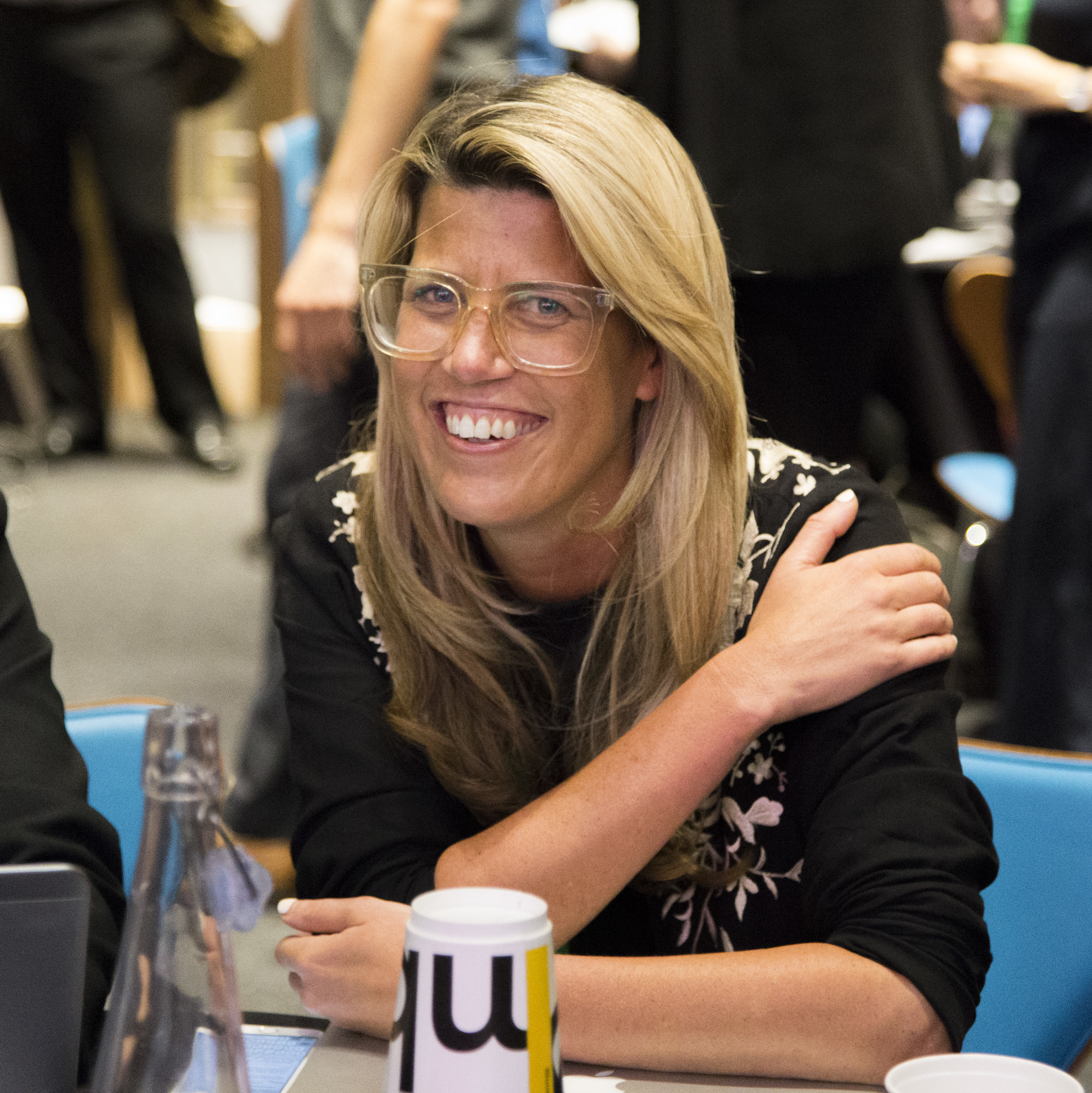 Pip Jamieson at the London Tech Week editathon at Bloomberg London